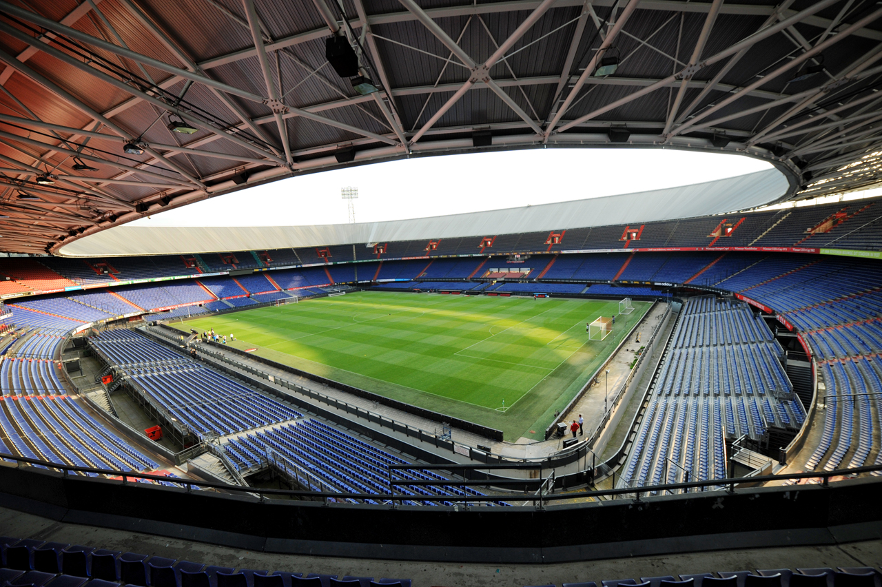 Stadion Feijenoord (De Kuip) in Rotterdam, the Netherlands